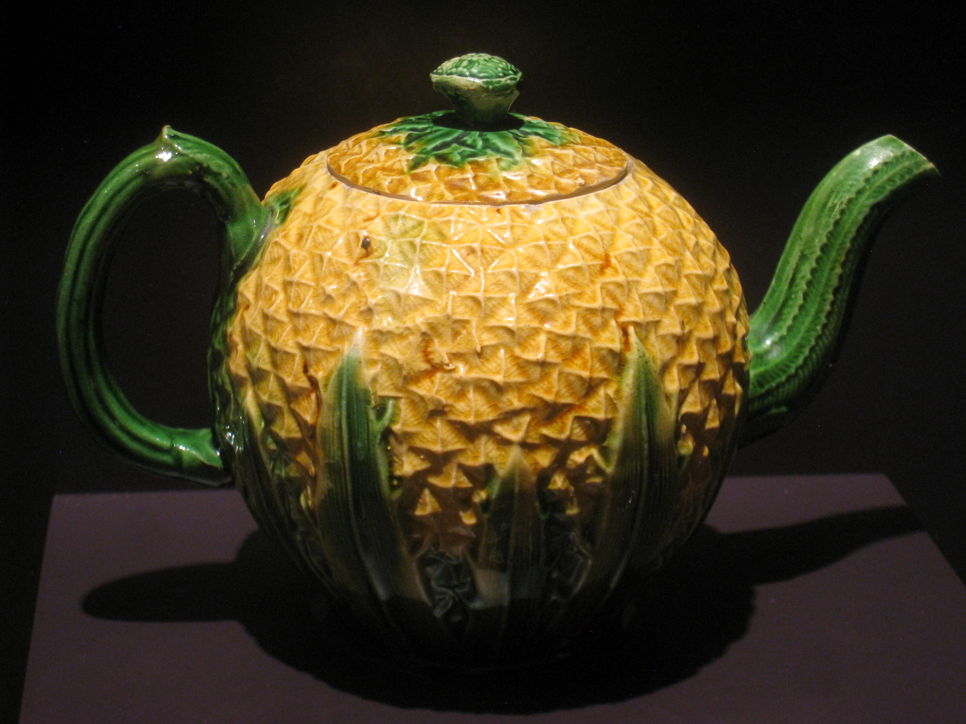 Tea pot, earthenware with lead glazes; Thomas Whieldon and Josiah Wedgwood, 1760-1765. Pottery exhibited in the DAR Museum, National Society Daughters of the American Revolution, 1776 D Street NW, Washington, DC, USA.